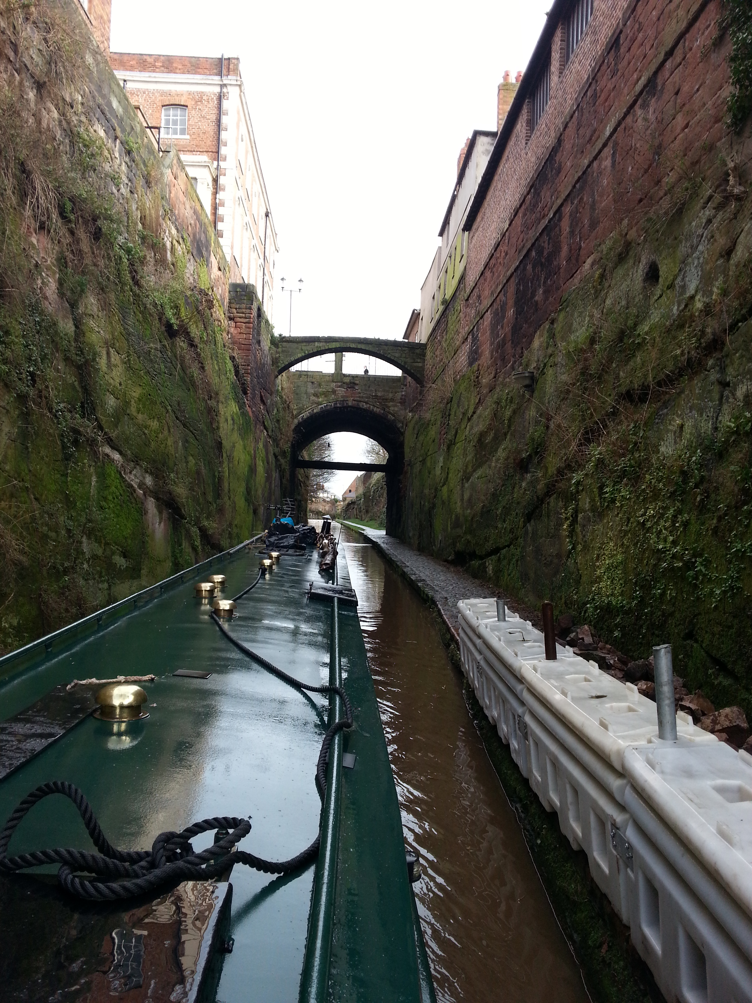 Bridge of Sighs - Chester stylee